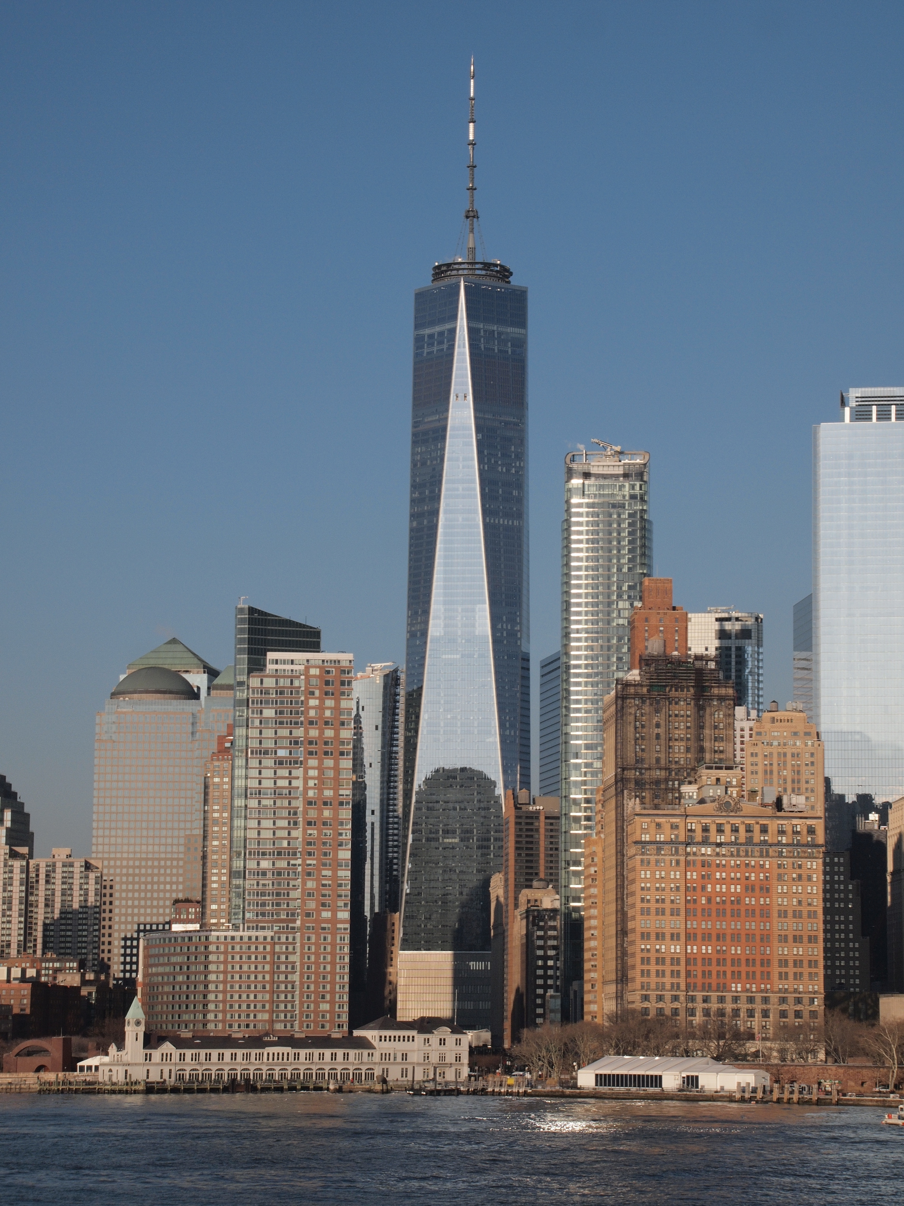 One World Trade Center seen from Staten Island Ferry. Du darfst die Beschreibung dieser Datei gerne übersetzen, präzisieren oder berichtigen. Außerdem darfst du das Bild gerne verbessern (Helligkeit, Sättigung usw.) und Annotationen hinzufügen. Sei mutig! Feel free to translate, specify or correct the description of this file. You are also welcome to improve the image (brightness, saturation, etc.) and add annotations. Be bold! Bei einer Weiterverwendung der Datei außerhalb der Wikimedia-Projekte bitte ich um eine Nachricht auf meiner Diskussionsseite. Alternativ können Sie auch direkt eine E-Mail an schicken, ich bitte um eine kurze Notiz auf meiner Diskussionsseite. Bei Verwendung in einem Print-Medium bitte ich um die Zusendung eines Belegexemplars. If you want to use the file outside of the Wikimedia projects, please leave a message on my discussion page. Alternatively, you can send an e-mail directly to , I ask for a short note on my discussion page. If used in a print medium, please send me a voucher copy. Lizenzhinweis generieren Generate license notice Die Lizenz deckt nicht die Verwendung in Sozialen Netzweken wie Facebook, Twitter oder YouTube ab. Siehe die Einschätzung der Wikimedia Foundation. The license does not cover use on social networks such as Facebook, Twitter or YouTube. See the Wikimedia Foundation's assessment.